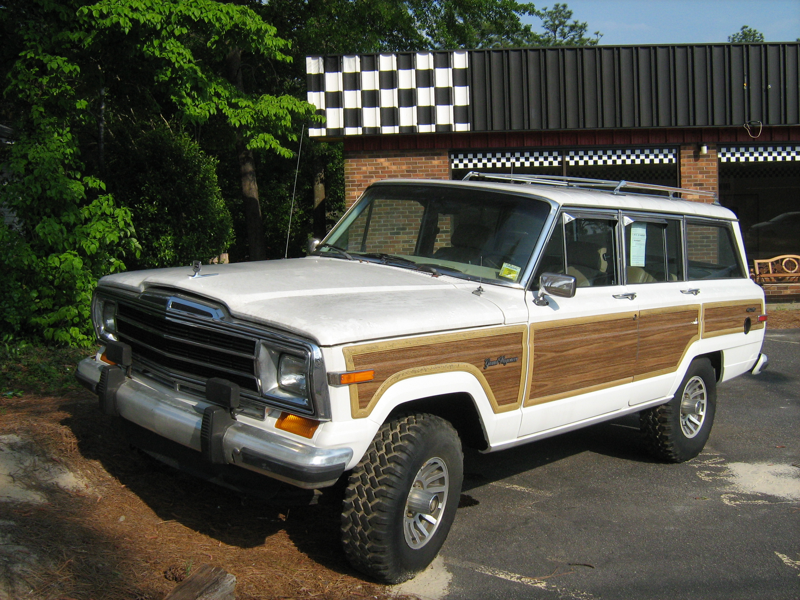 Jeep Grand Cherokee finished in white - front view. Photographed in North Carolina.